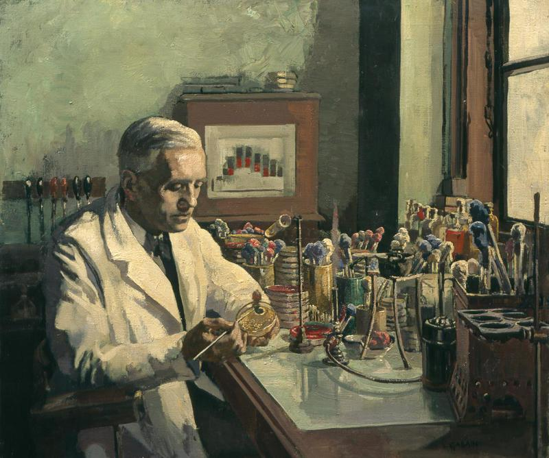 Sir Alexander Fleming, Frs, the Discoverer of Penicillin image: A portrait of Alexander Fleming, wearing a white coat, at work at a desk inside a laboratory. An array of scientific equipment is placed on the surface of the desk and there is a window to the right of the composition.